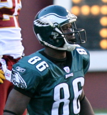 Reggie Brown of the Philadelphia Eagles in a game against the Redskins